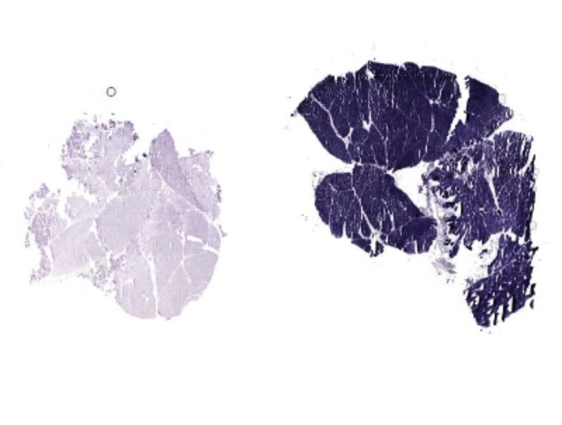 Mucle biopsy with enzymatic staining showing Adenosine Monophosphate Deaminase Deficiency type 1 (left, unstained) compared to normal muscle (right, stained).